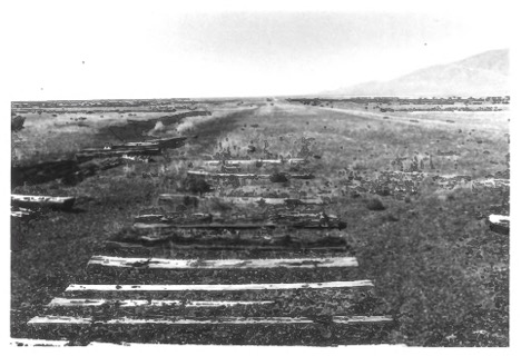 Looking west at the former switchyard in Terrace, Utah, about 1980